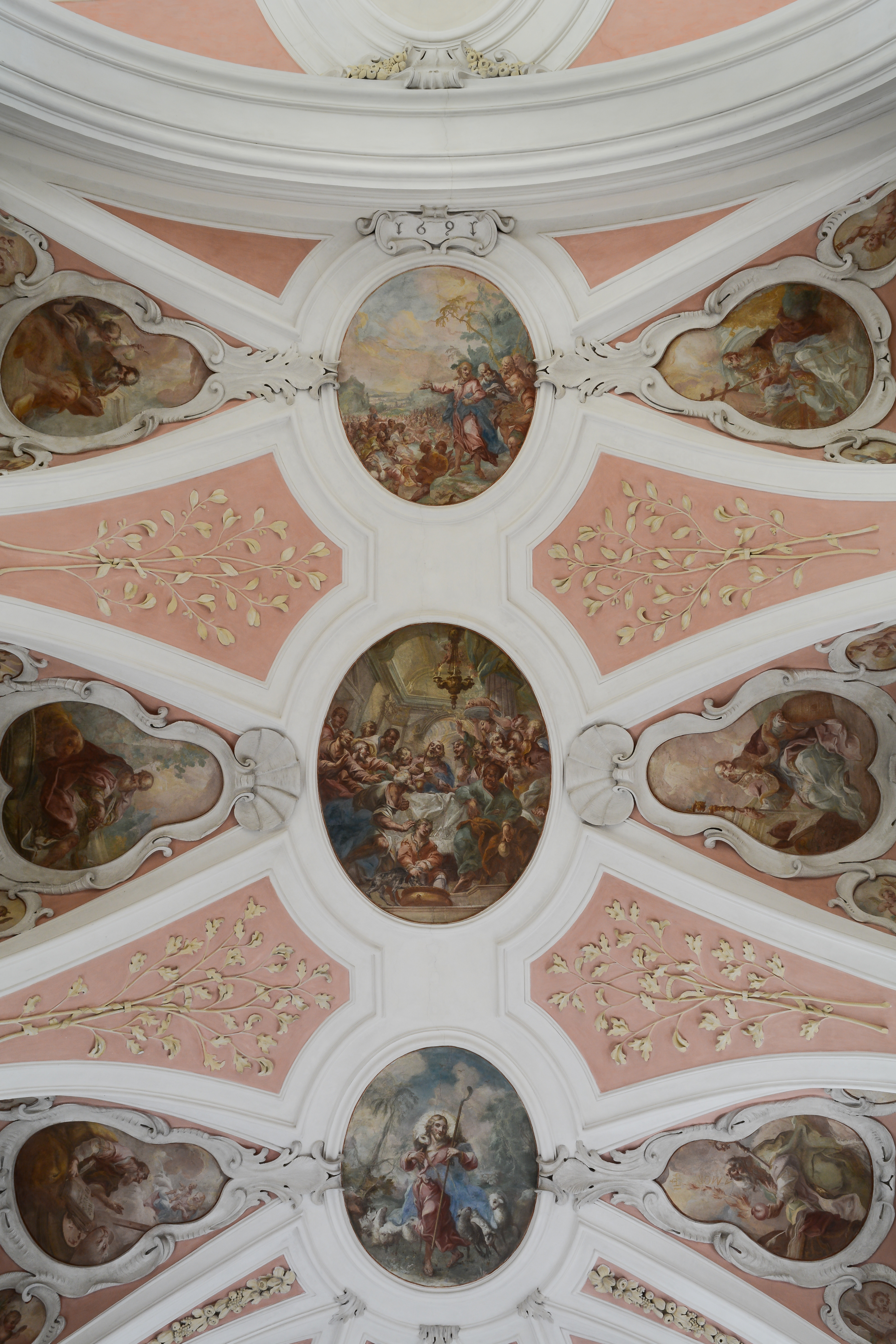 The Frescos in the ceiling of the parish church of Viechtwang were painted in 1725 by Wolfgang Andreas Heindl . In the Medaillons in the middle are shown the Feeding of the 5000, the Last Supper and Jesus as Good Shepherd. At the side evangelists and church fathers are shown.